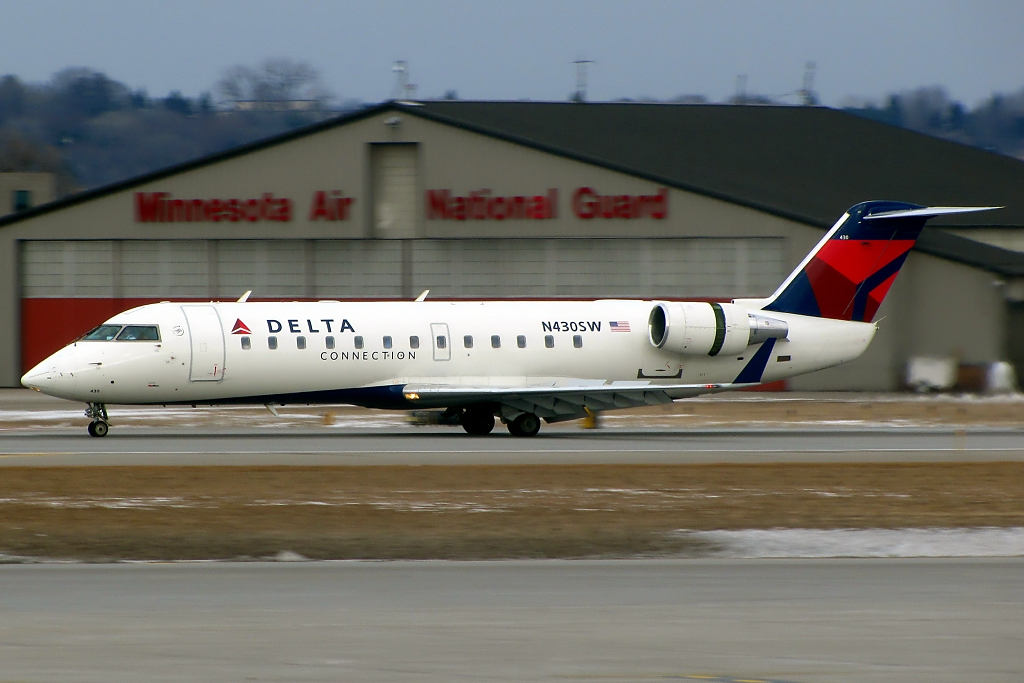 SkyWest CRJ-200 at MSP